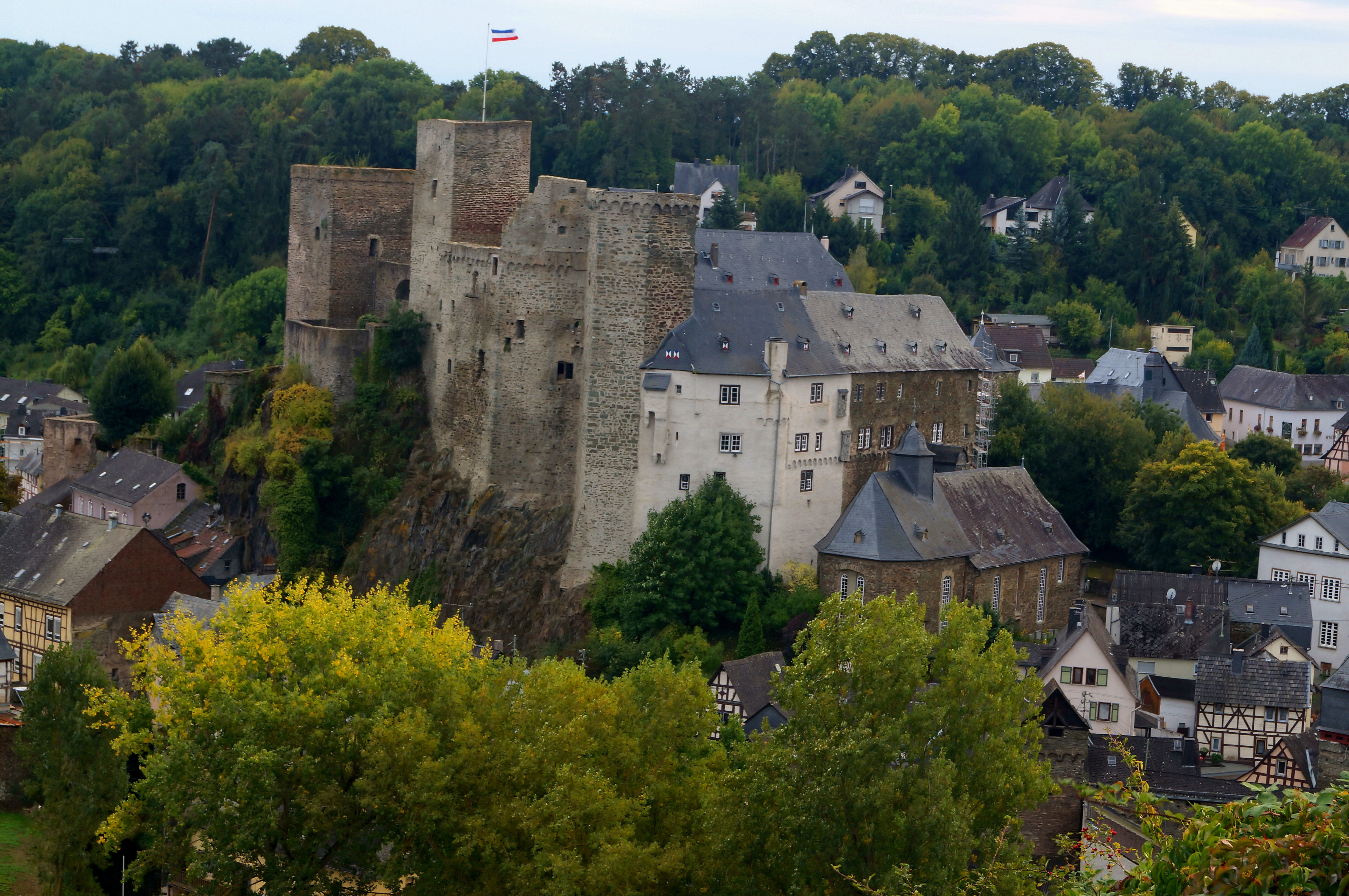 Runkel castle as seen from Schadeck.